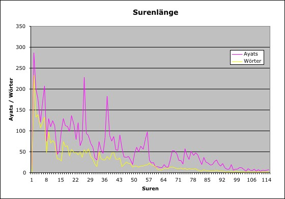 Length of sura counting number of verses or number of words (based on german translation)